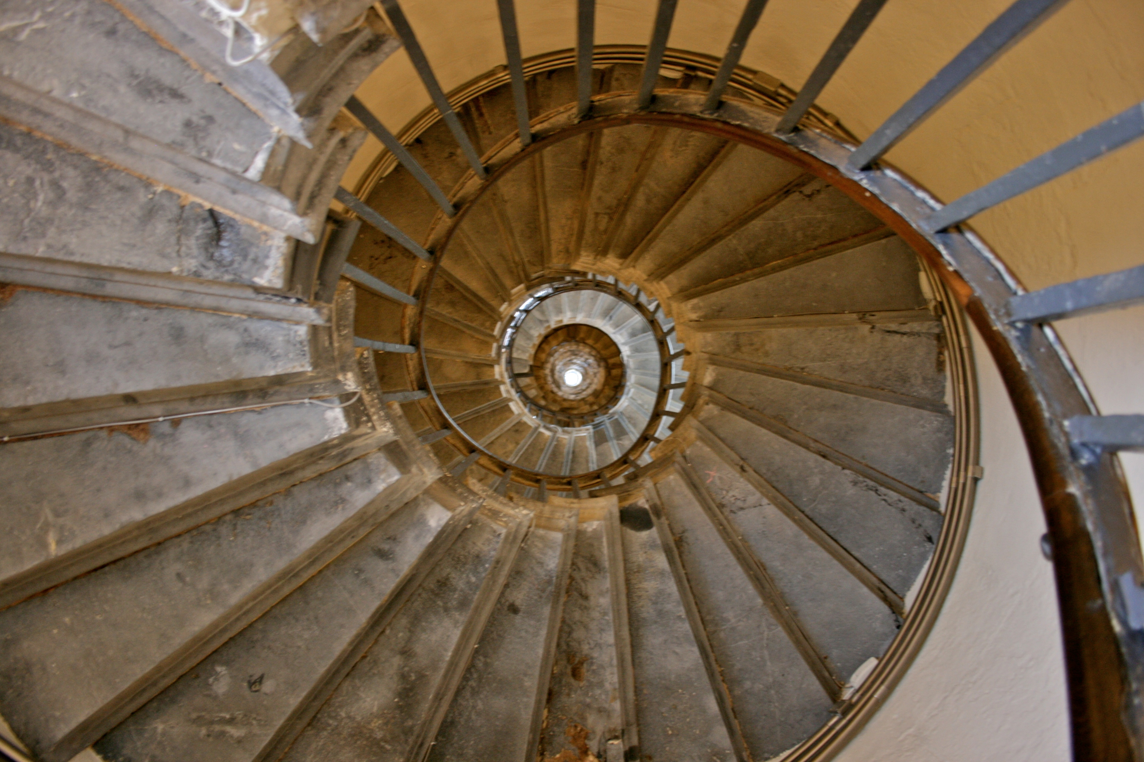 Staircase in the Monument to the Great Fire of London, London.